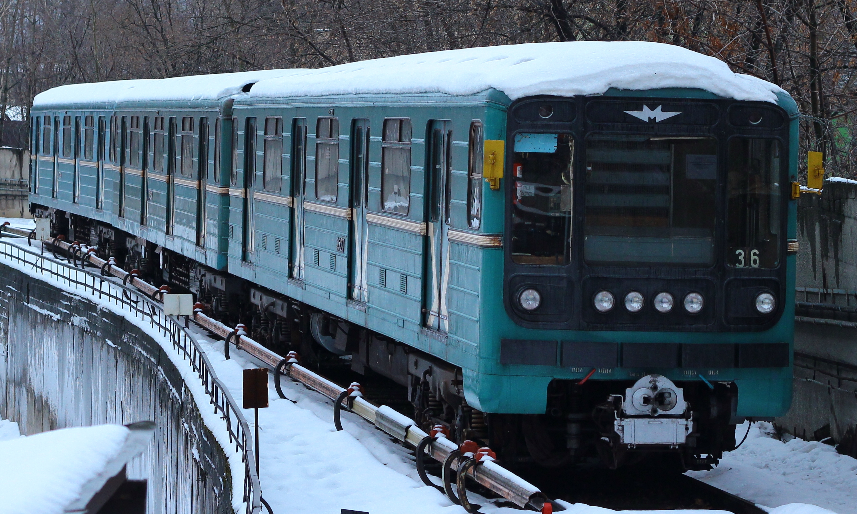 Metro car type 81-717 in "Novogireevo" depot.